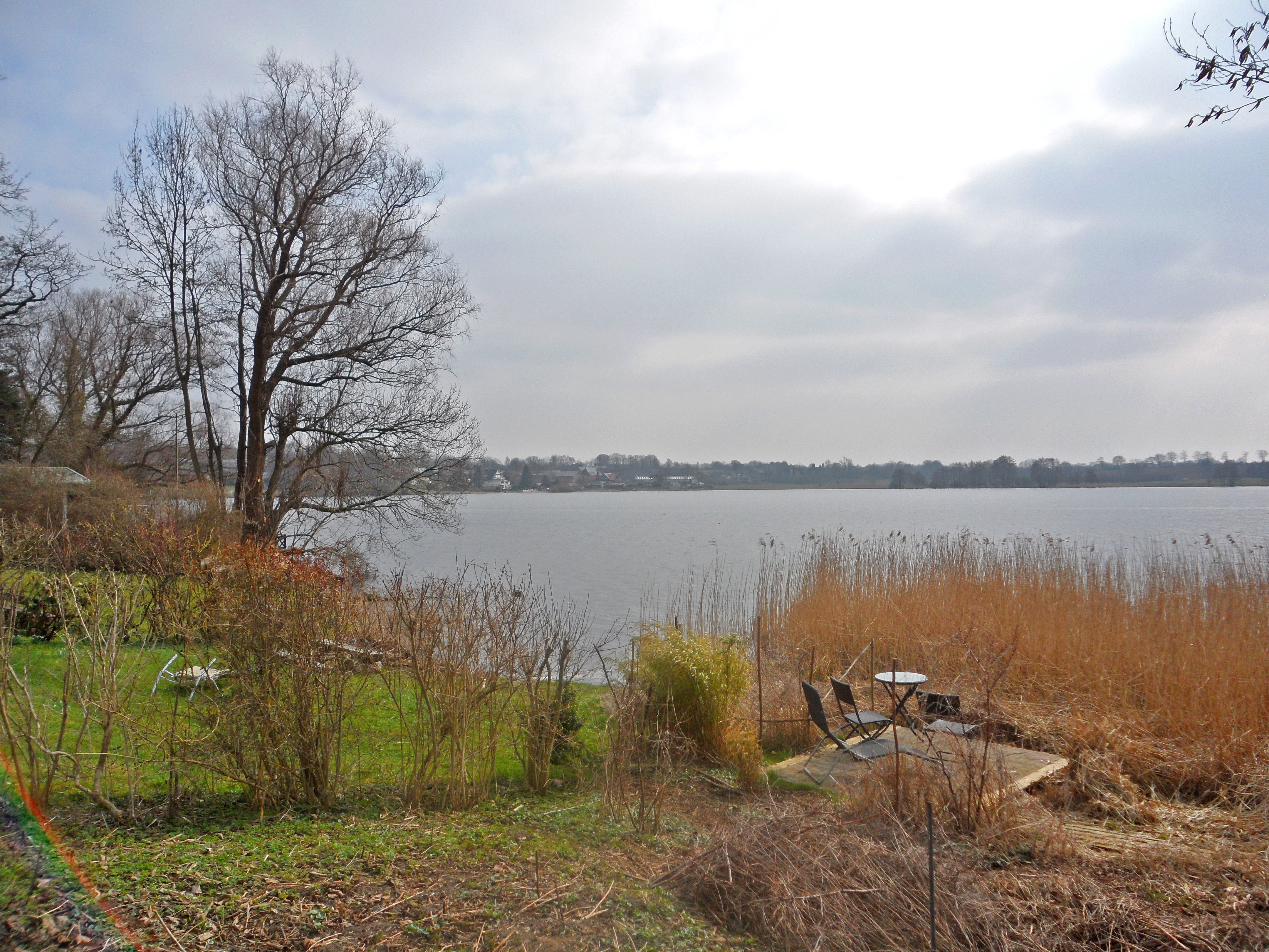 Lake Schmalensee (Plön) from village Schmalensee